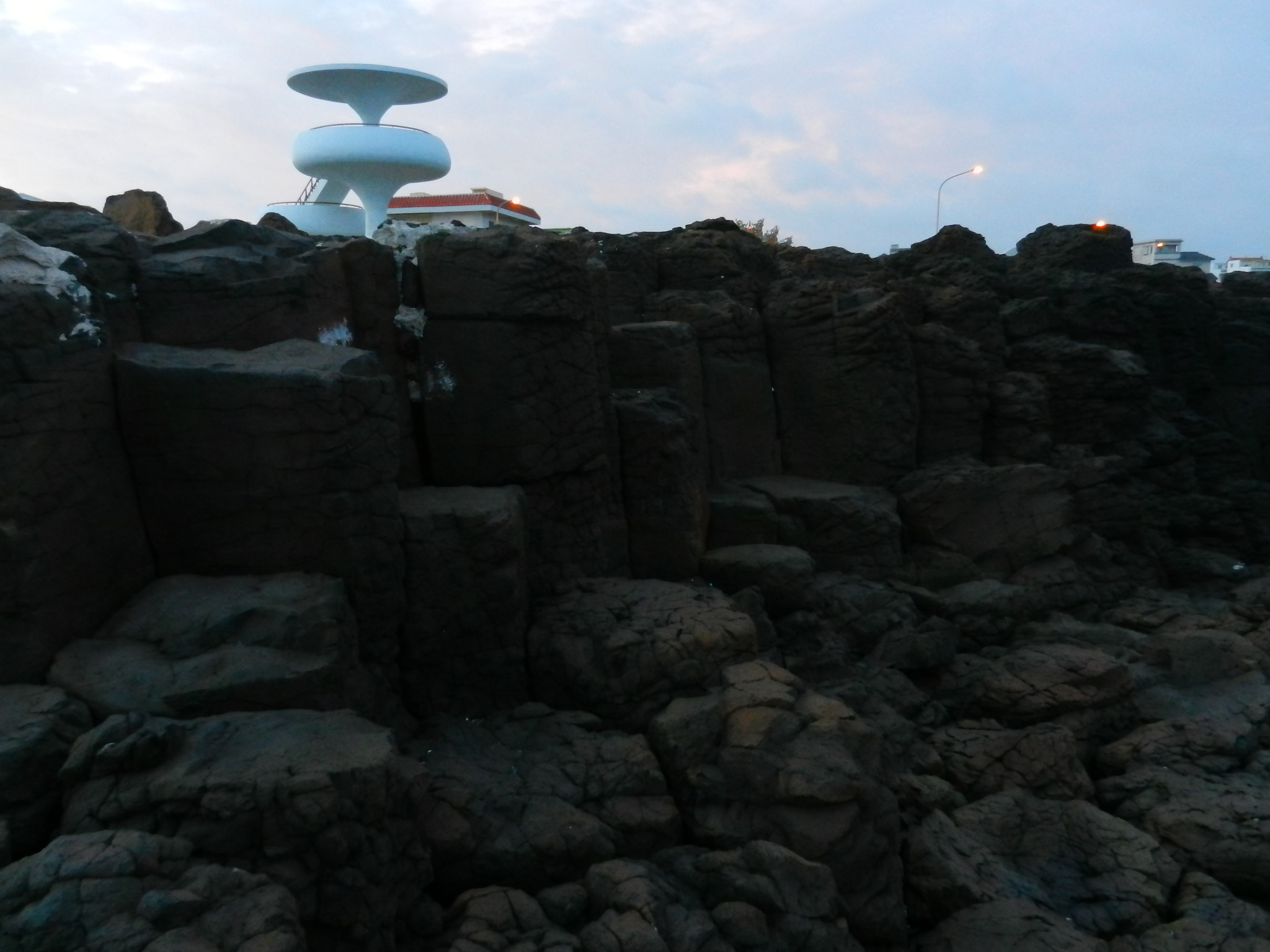 The Fongguei Cave. The famous seaside landscape of Penghu, Taiwan. 風櫃洞